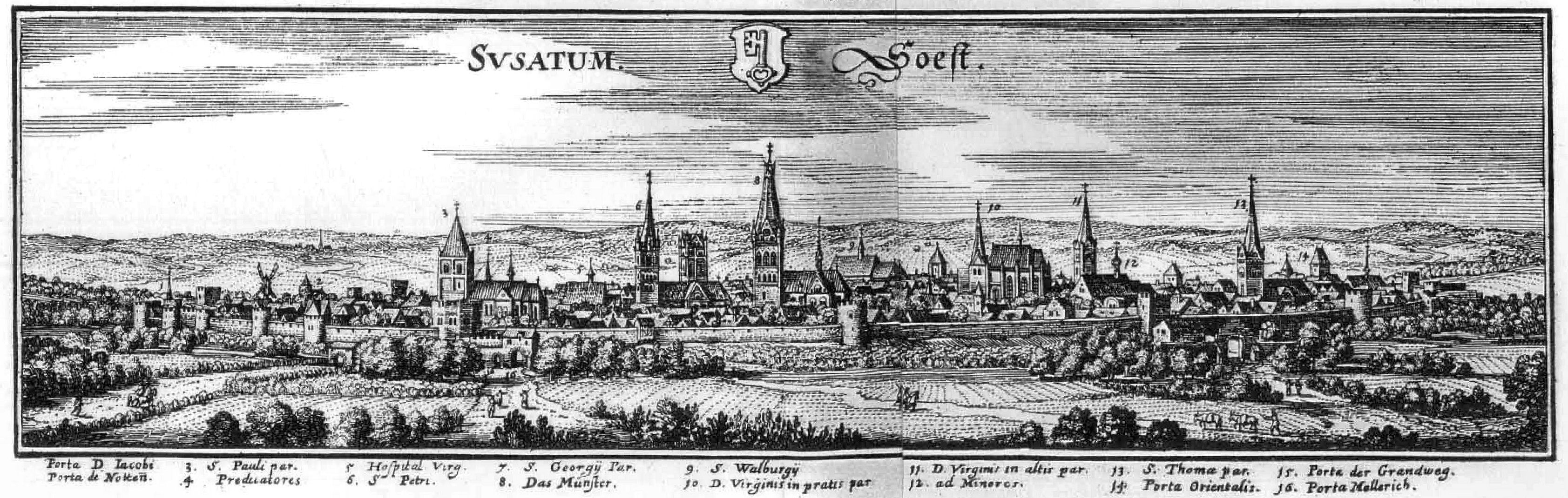 This is a scan of the historical document:Publication date 1647publication_date QS:P577,+1647-00-00T00:00:00Z/9Source